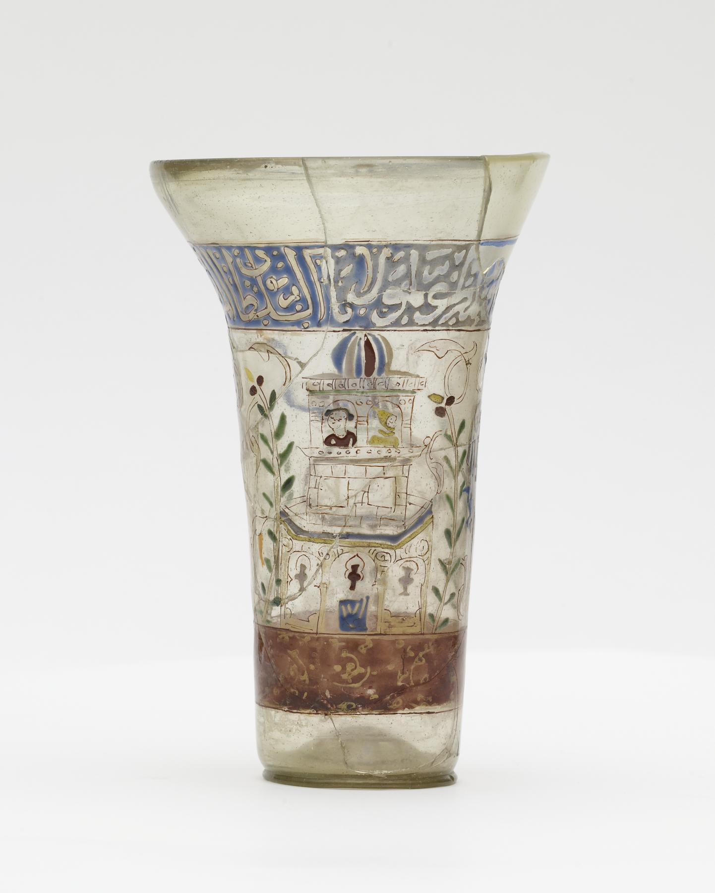 This unique glass vessel reflects religious, historical, and cultural connections between Islam and Christianity. The work dates from the Crusader period (1097-1291), when Islamic imagery, including inscriptions in Arabic, as here, was often combined with Christian themes. It includes compositions in which figures resembling saints alternate with two-storied, domed structures that may represent monastic communities. A smaller vessel in the Walters collection (Walters 47.18), perhaps made to pair with this beaker, depicts a figure riding a grey donkey -- possibly Christ entering Jerusalem.